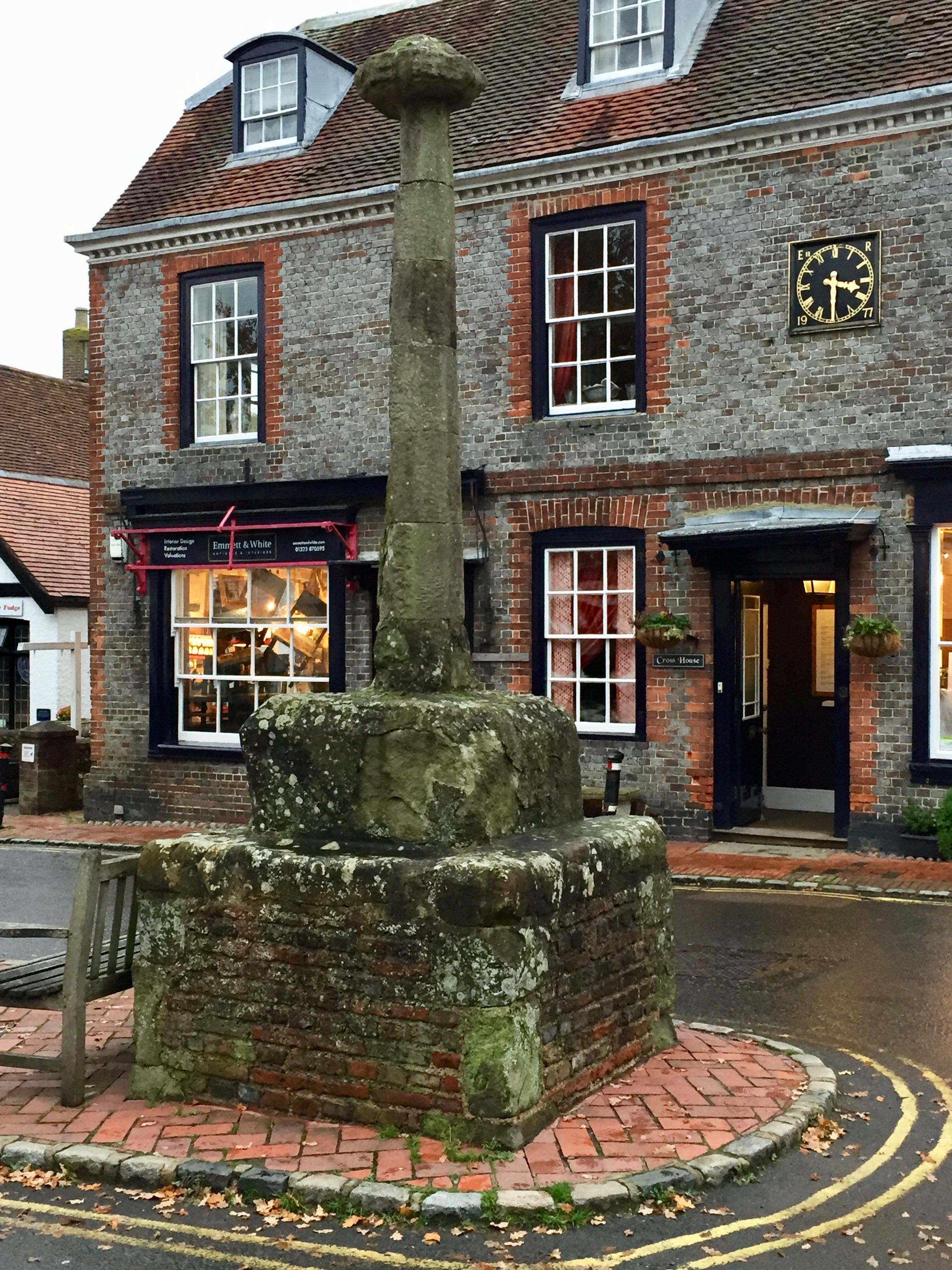 The market cross in Alfriston, one of only two remaining market crosses in Sussex. It is formed of a stone base and shaft on a brick plinth; the cross itself is missing, but the shaft is topped with a ‘cornice-like’ stone. The cross is a Grade I listed building.